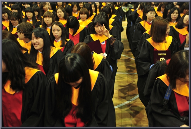 Cheonan Girls' School Graduation Clothes